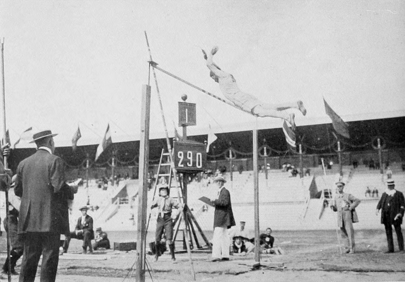 Jim Thorpe during the decathlon competition at the 1912 Summer Olympics - pole vault